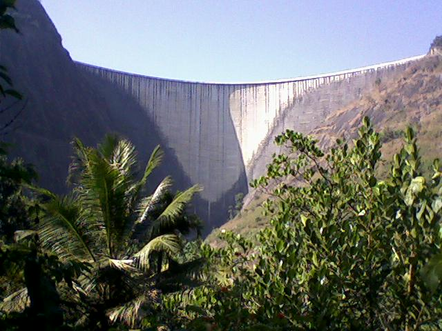 The concave side of the Idukki Arch Dam.